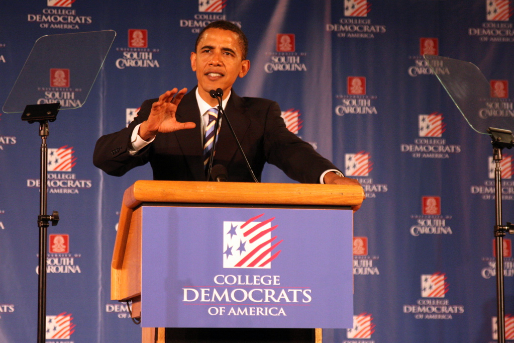 Barack Obama Speaks to College Democrats